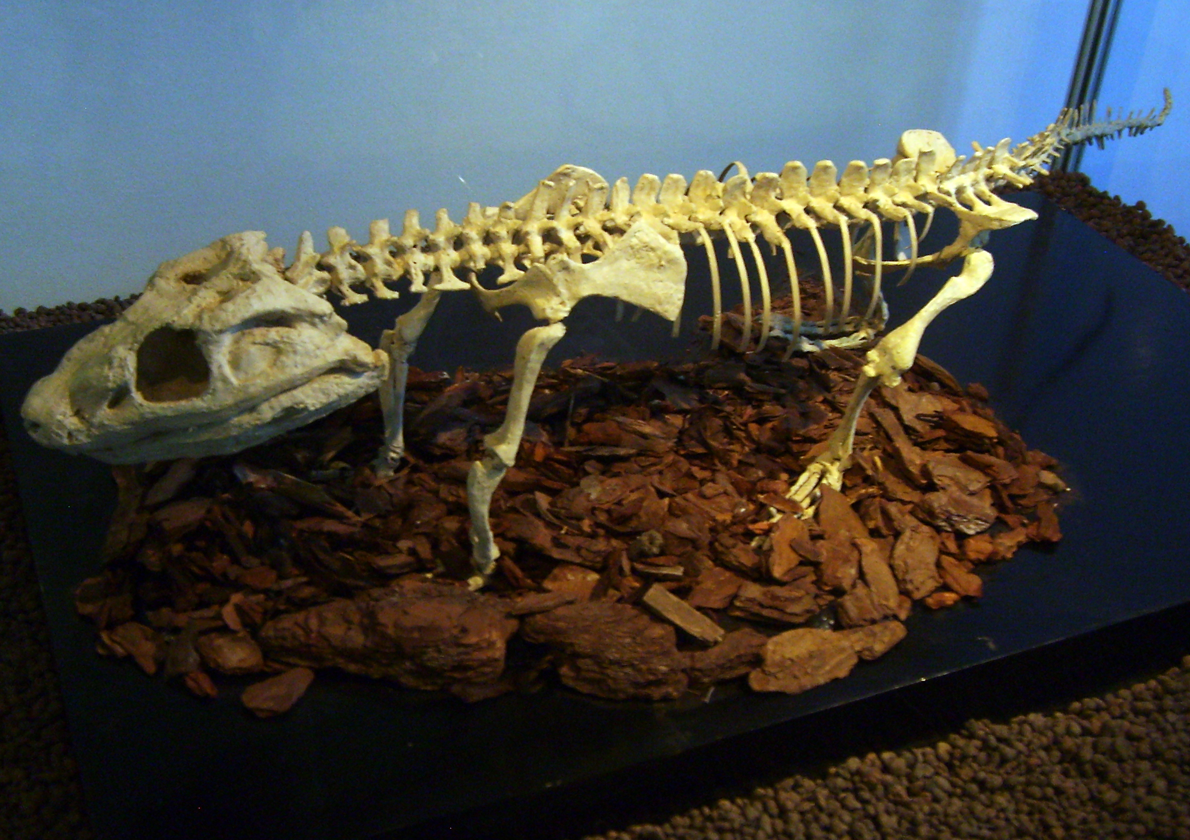 Comahuesuchus skeleton restoration, Copenhagen